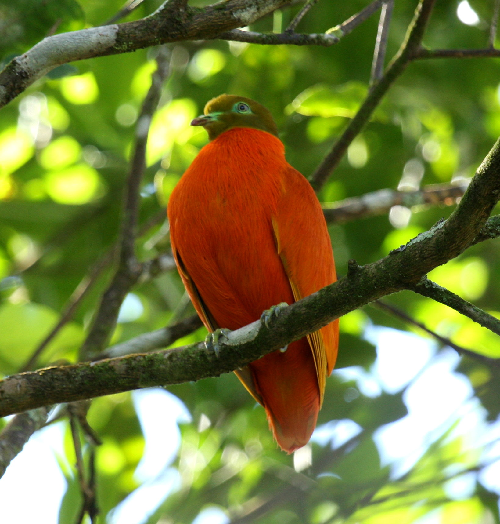 Male Orange Dove (Ptilinopus victor) Bobby's Farm, Taveuni, Fiji Isles